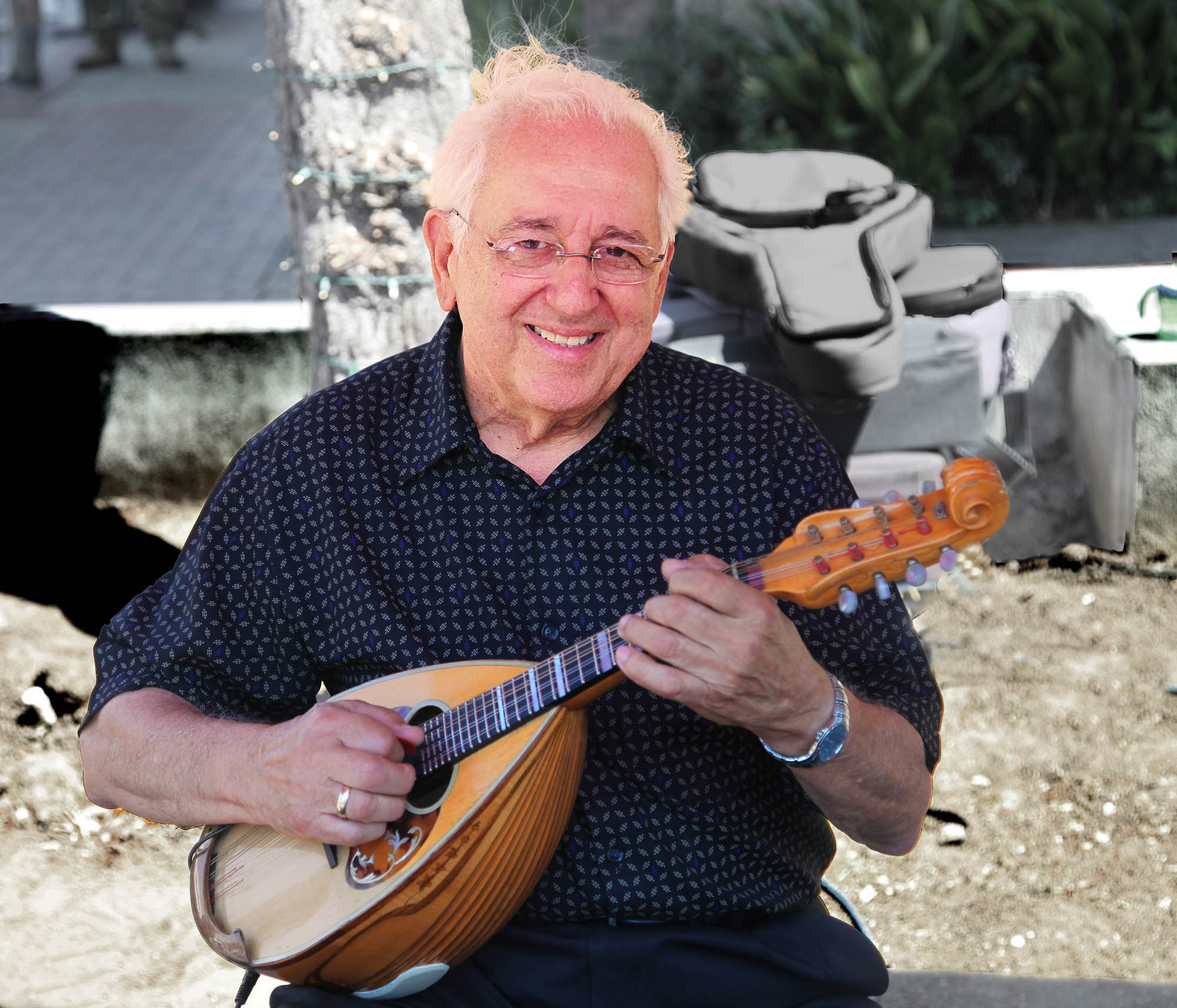 Mandolin Player (by Jitze Couperus)